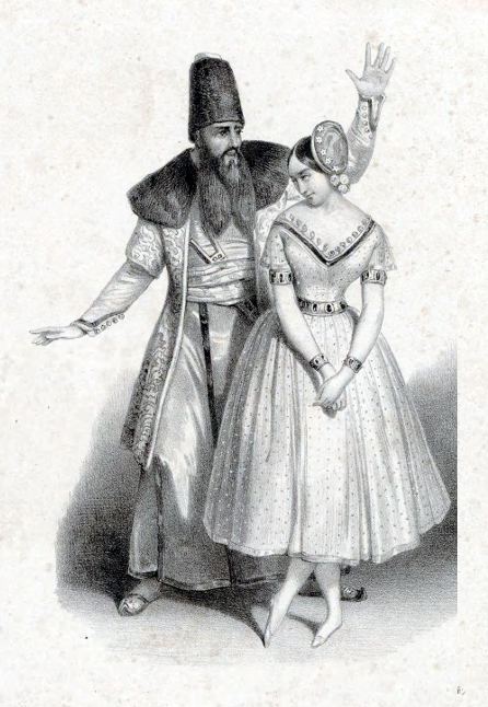 Pauline Leroux (1809-1891) and M. Élie in Le Diable amoureux (Act III) staged by Joseph Mazilier to the music of Napoléon Henri Reber and François Benoist. Lithograph by Jules-Robert-Pierre-Joseph Challamel (1813-18?) after Marie-Alexandre Alophe (1812-1883).